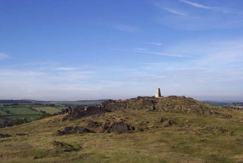 Beacon Hill,Leicestershire taken by kev747